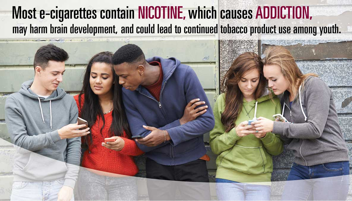 From the United States electronic cigarette marketing report